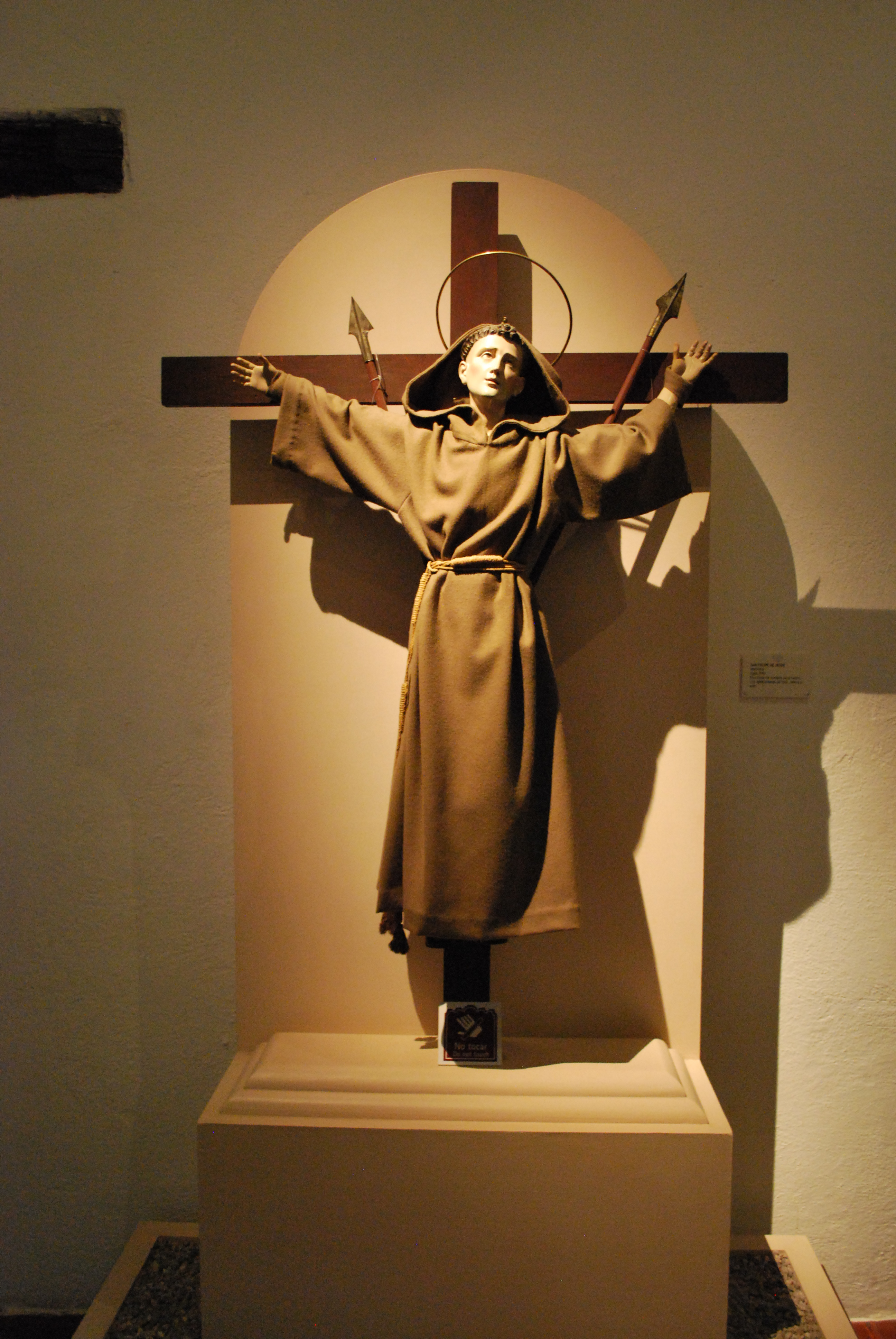 Image of Philip of Jesus at the Museo Nacional del Virreinato in Tepotzotlan, Mexico State